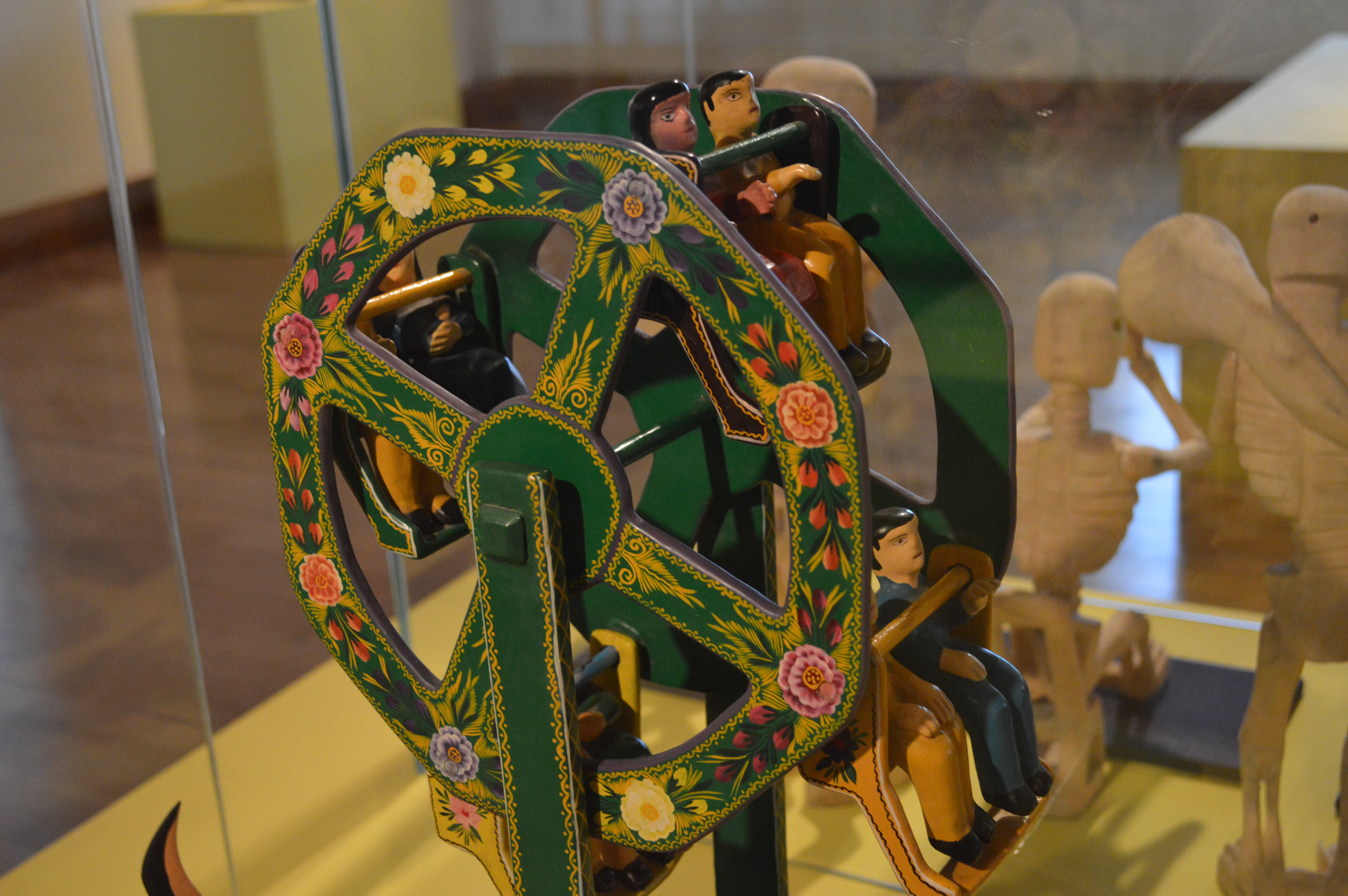 Toy ferris wheel from Temalcatzingo, Guerreroat the Coleccionismo en el Arte Popular exhibit at the Railway Museum in San Luis Potosi